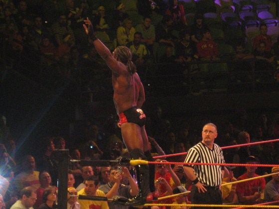 Hulkamania Tour @ Rod Laver Arena. Melbounre, AUS.